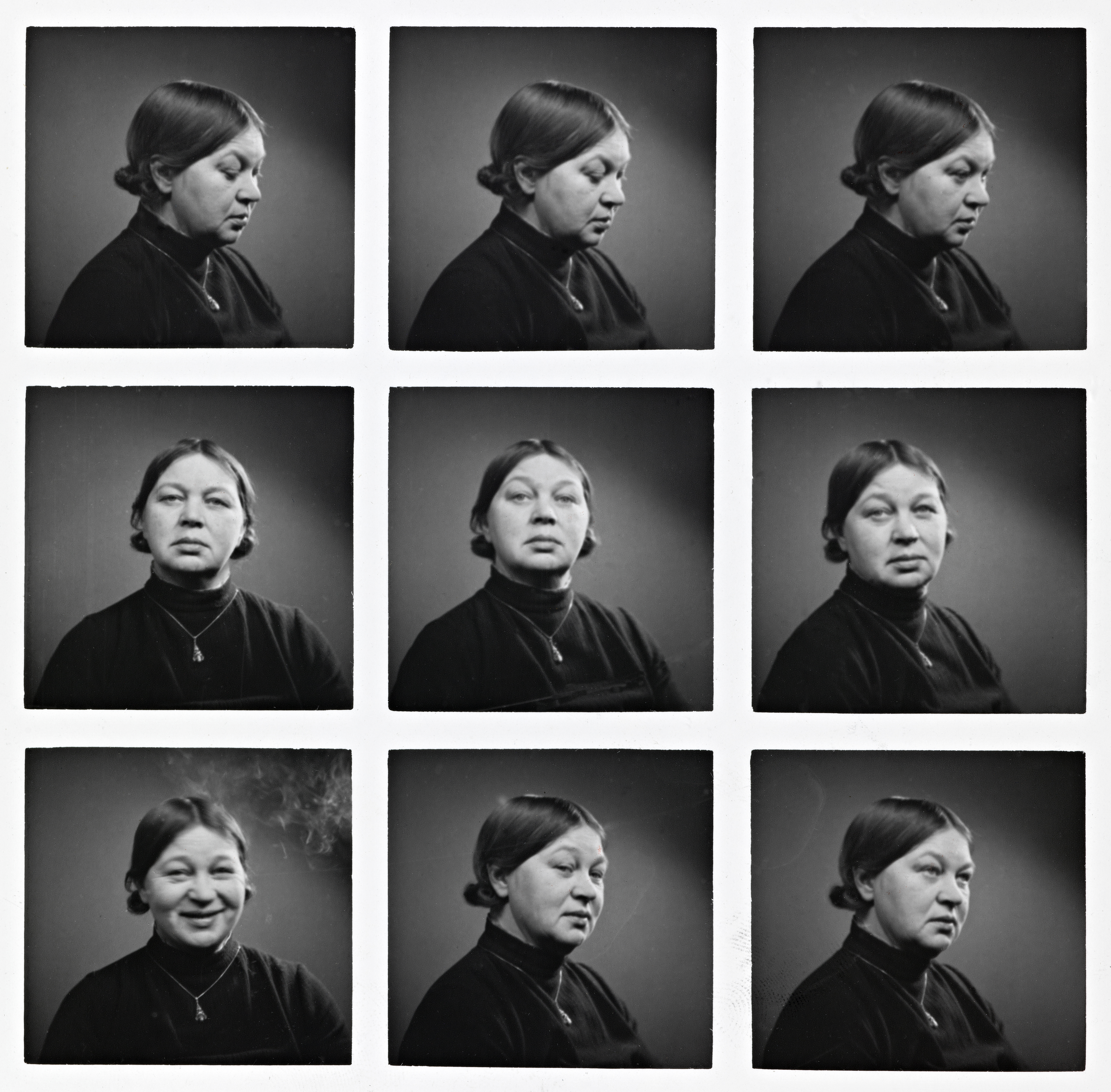 Beskrivelse / Description: Aslaug Vaa var forfatter. Dato / Date: ukjent / unknown Fotograf / Photographer: ukjent / unknown Digital kopi av original / Digital copy of original: s/h papirpositiv, kontaktkopiark Eier / Owner Institution: Nasjonalbiblioteket / National Library of Norway Lenke / Link: Bildesignatur / Image Number: blds_06983_b